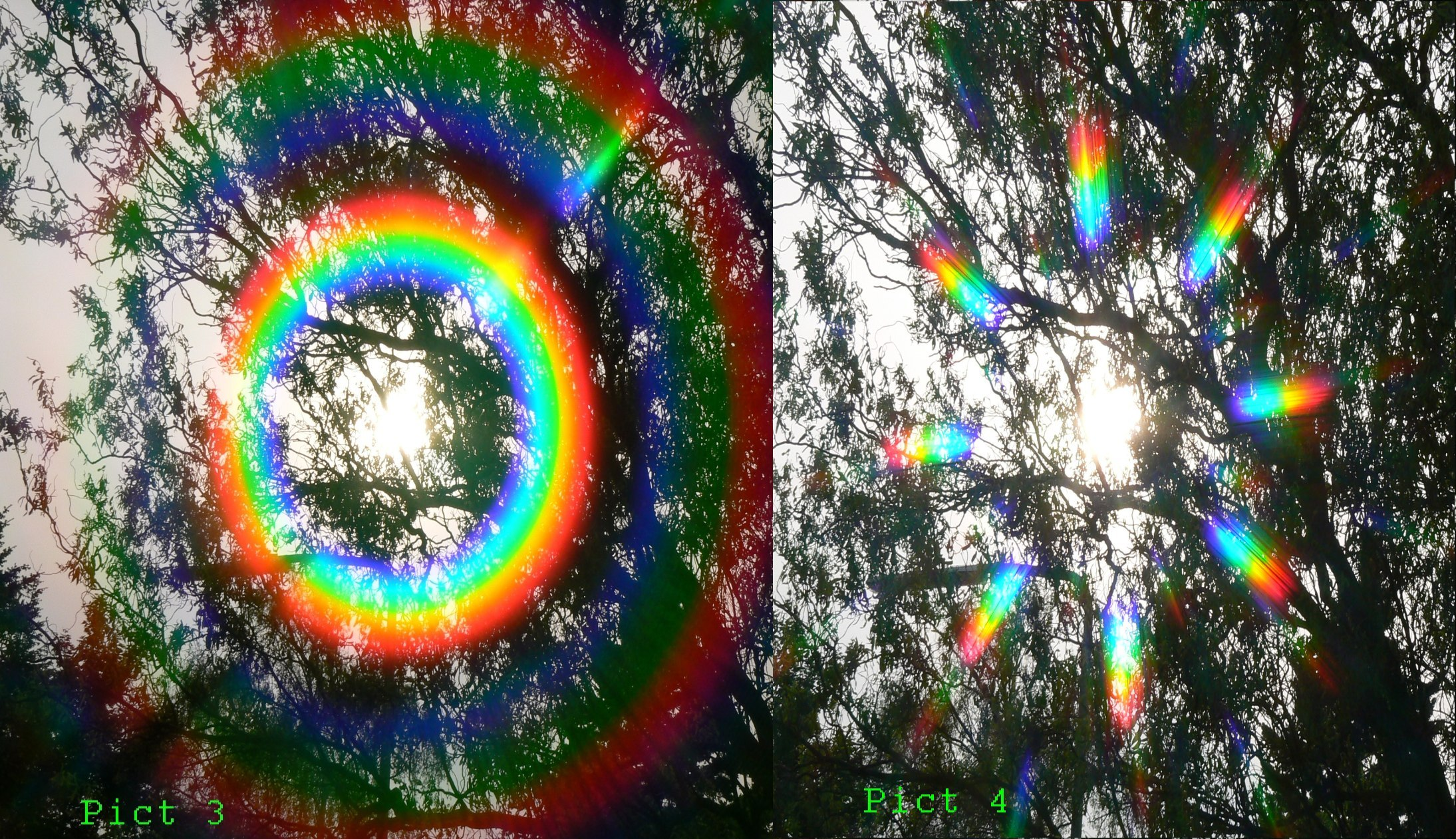 Description: Filterworkshop Date: 17.05.2006 Author: Attribution Share Alike (by-sa)